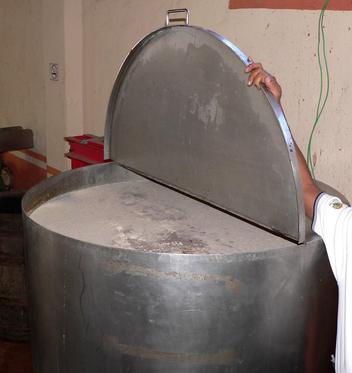 Photo of agave fermenting vat at Dona Engracia hacienda, Jalisco, Mexico.